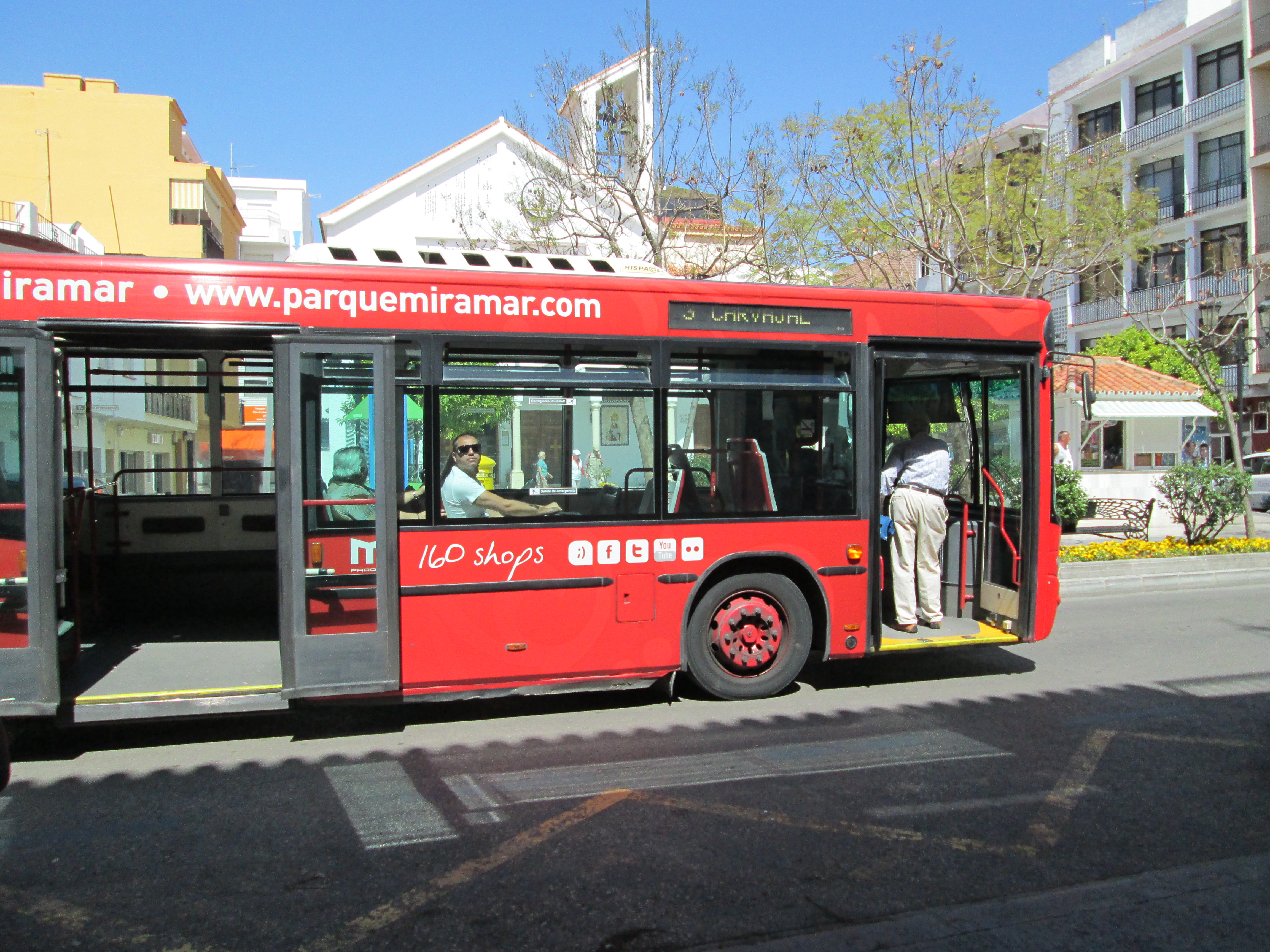 Fuengirola